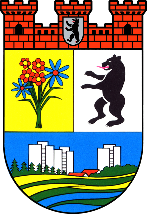 Coat of arms of Hellersdorf, a former boroughs of Berlin.